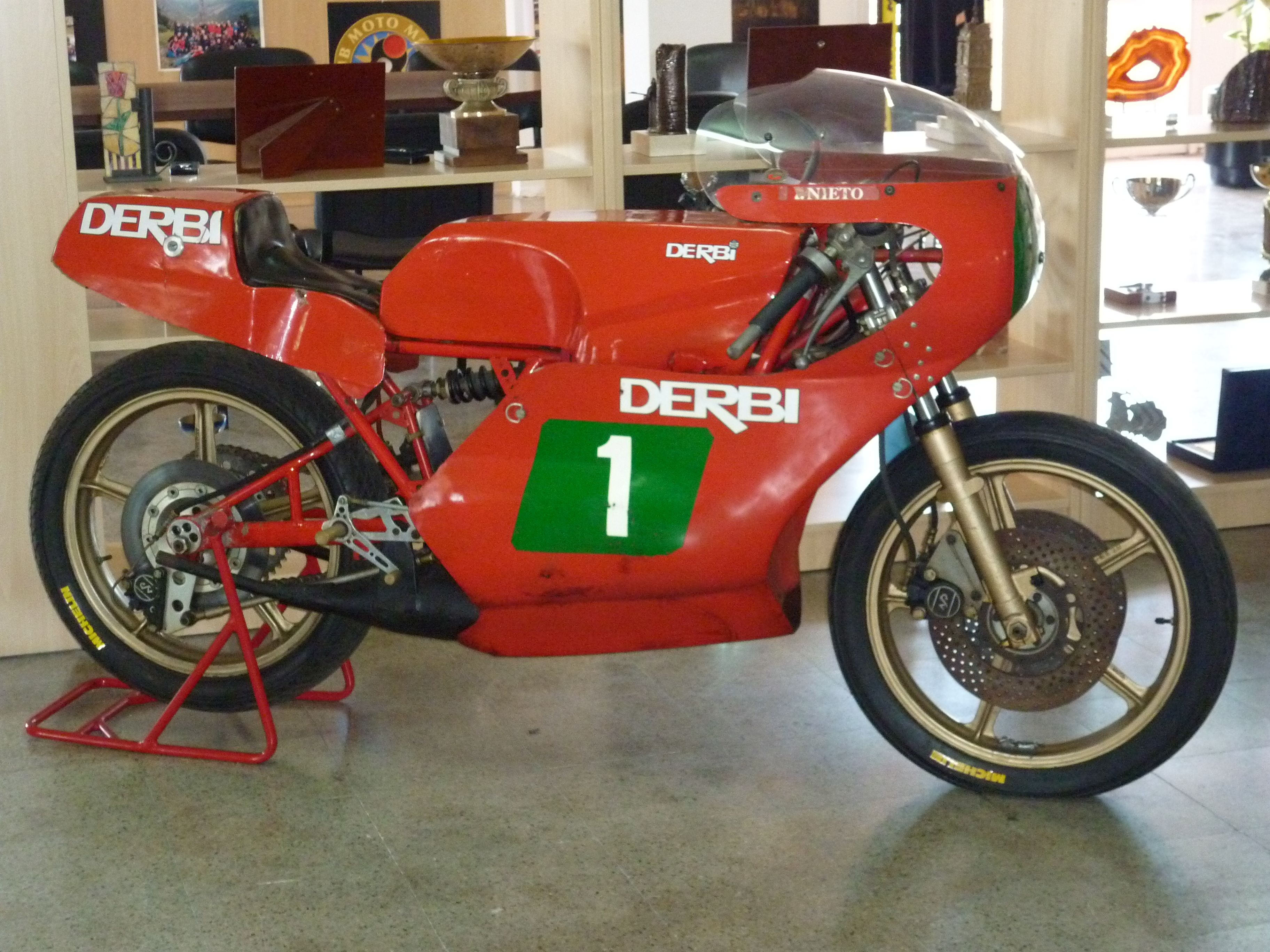 Derbi GP 250cc (early 70s). Spanish Champion 1971 - 1975 ridden by Angel Nieto. Spanish Champion several times ridden by Benjamí Grau.